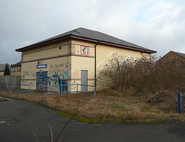 Auditorium of the former Transperience transport museum , Low Moor, North Bierley